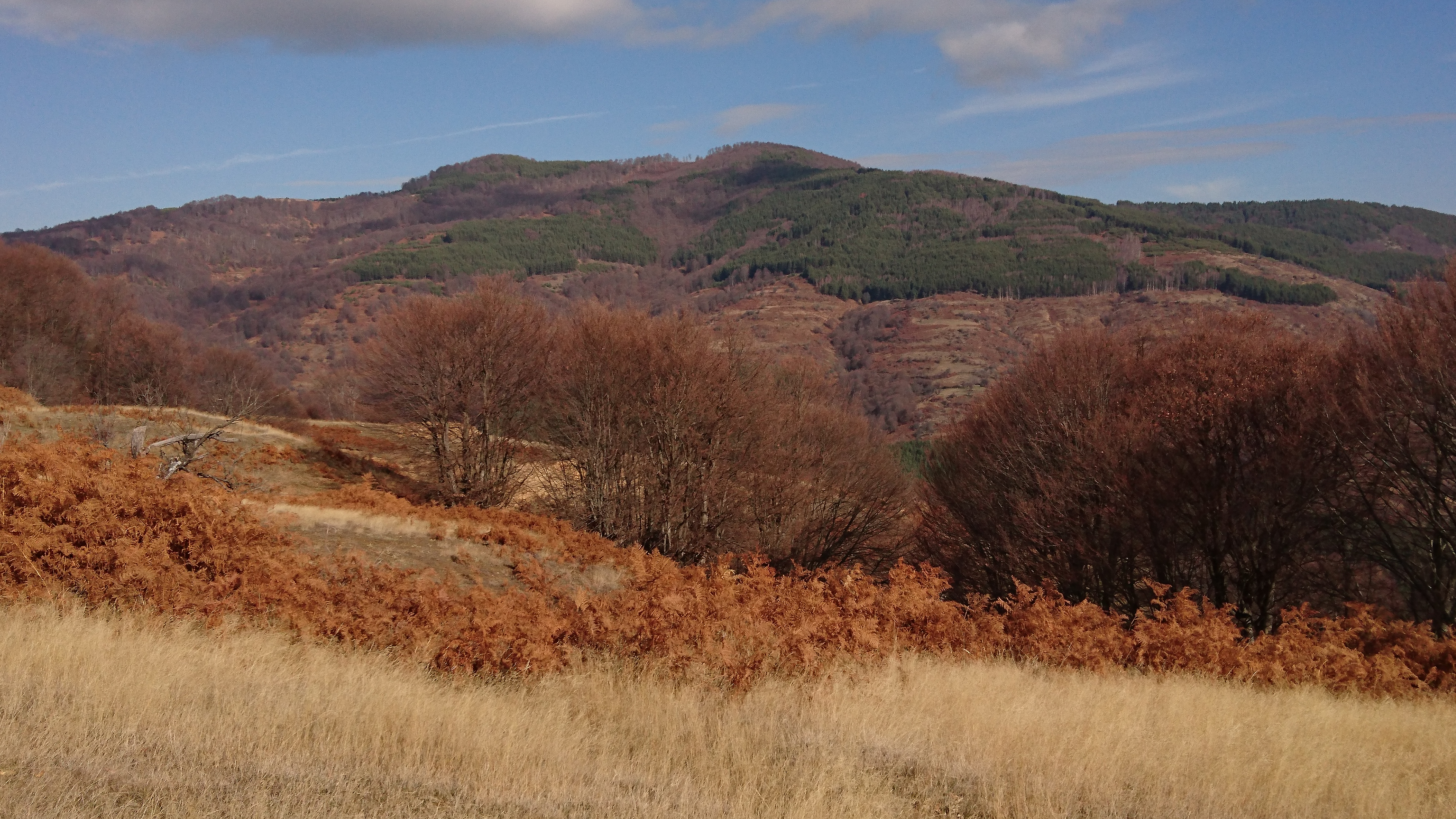 Peaks of Bilska Chuka and Golak, view from the southwest, Ograzhden, Bulgaria